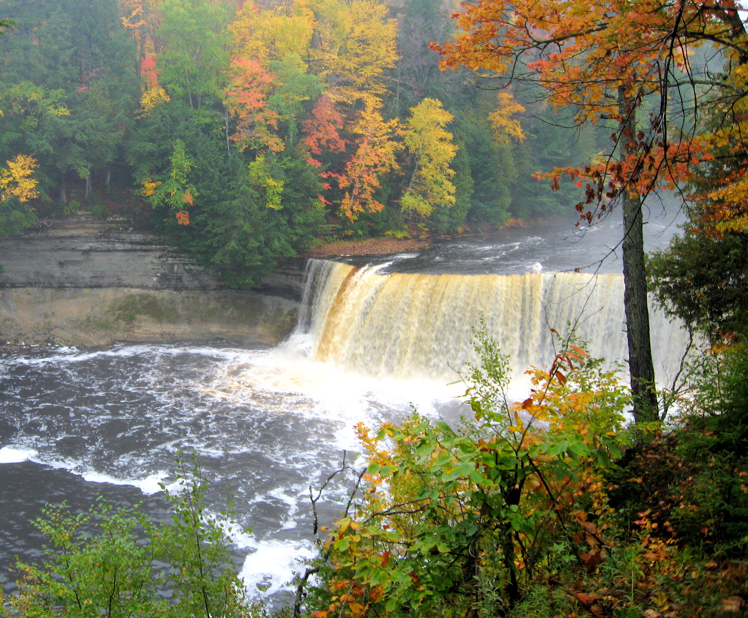 Tahquamenon Falls, Upper Peninsula, Michigan